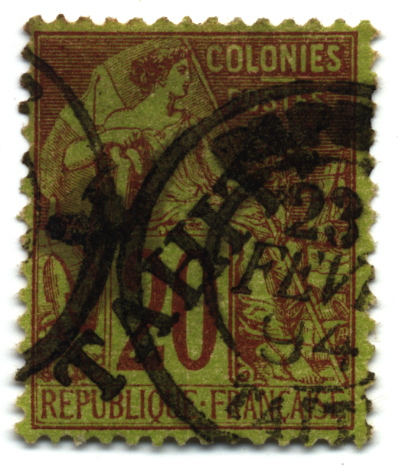 Scan of Tahiti 20c stamp of 1893